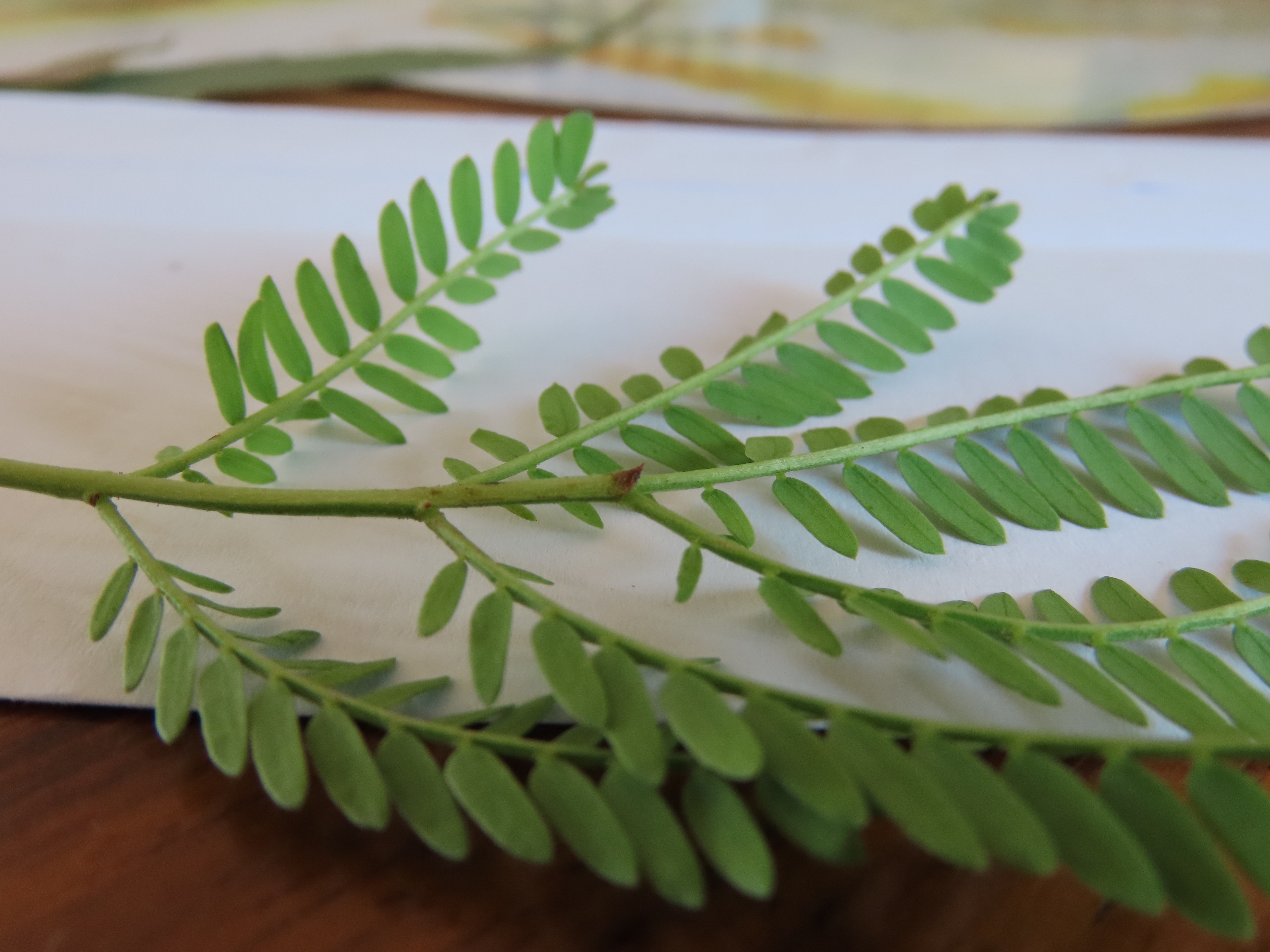 Mucro at the tip of the rachis of a compound leaf of Vachellia karoo The presence of the conical, brown, bent down (abaxially) when the leaf is in its spontaneous position attached to the branch, is one of the diagnostic features of the species